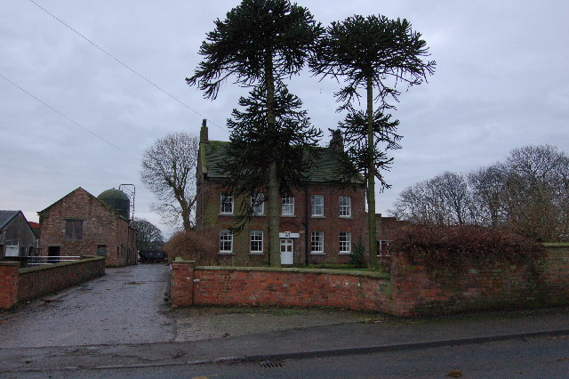 Bradkirk Hall. Bradkirk Hall and the Bradkirk area is the site of the old brick works for the area, the old road from Wesham the Bradkirk used to be called Bloody Bradkirk Road because the local gibbet was situated on it. The hall is now a farm.